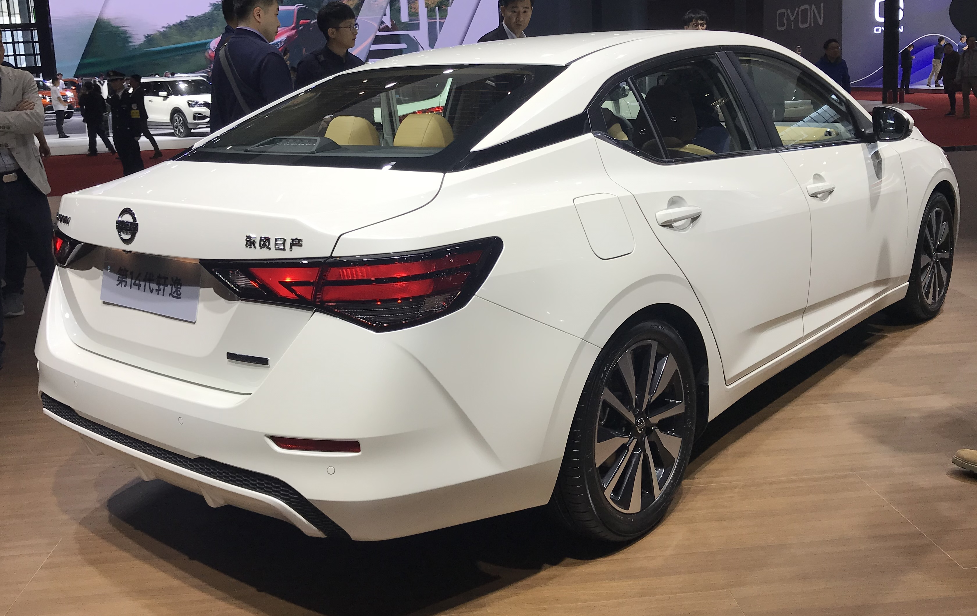 Nissan Sylphy B18 rear